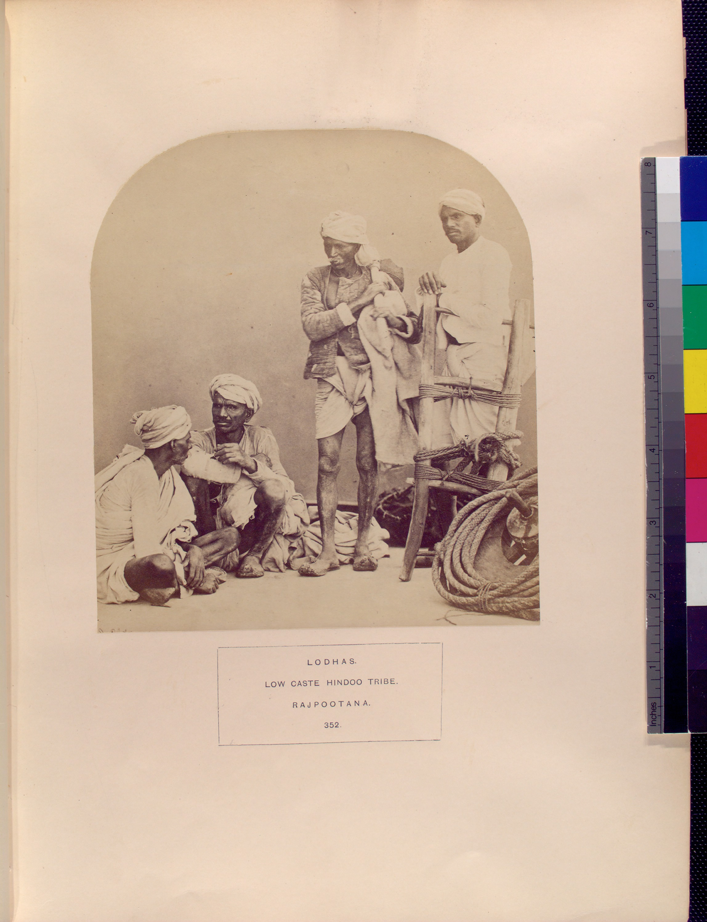 Lodhas, low caste Hindoo tribe, Rajpootana